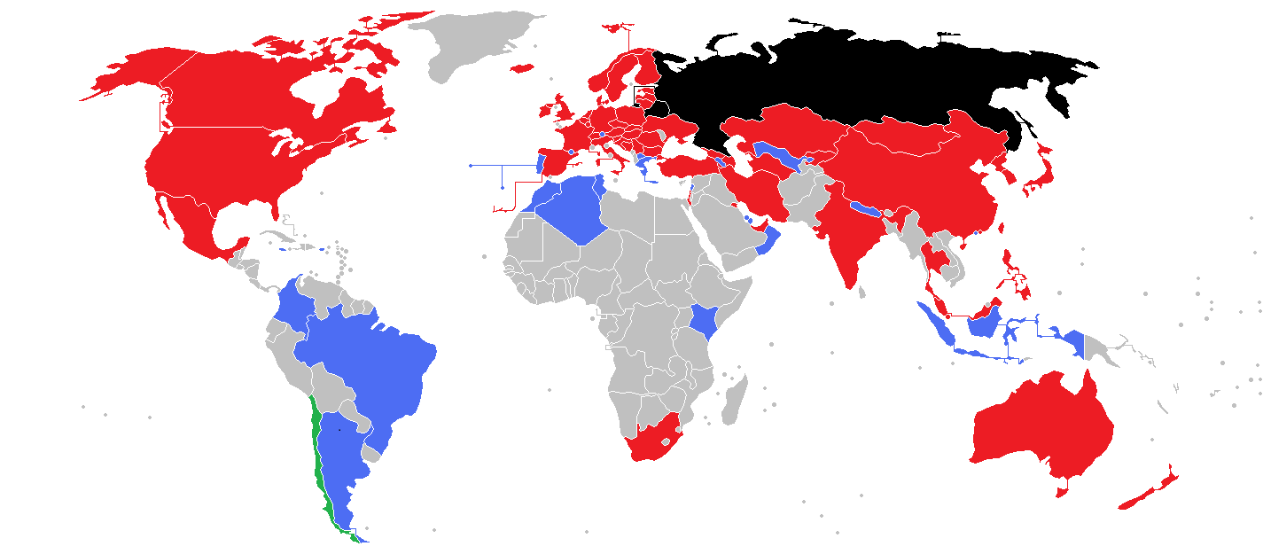 A map showing the members of the International Ice Hockey Federation.Red for countries that are full membersBlue for countries that are associate members.Green for countries that are affiliate members.Gold for countries which are candidates for accession